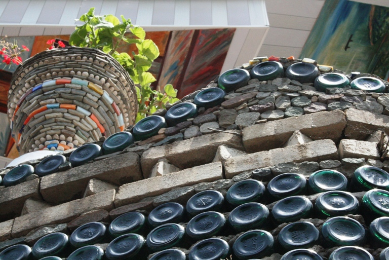 Bottle_house_in_ganja_azerbaijan2.jpg